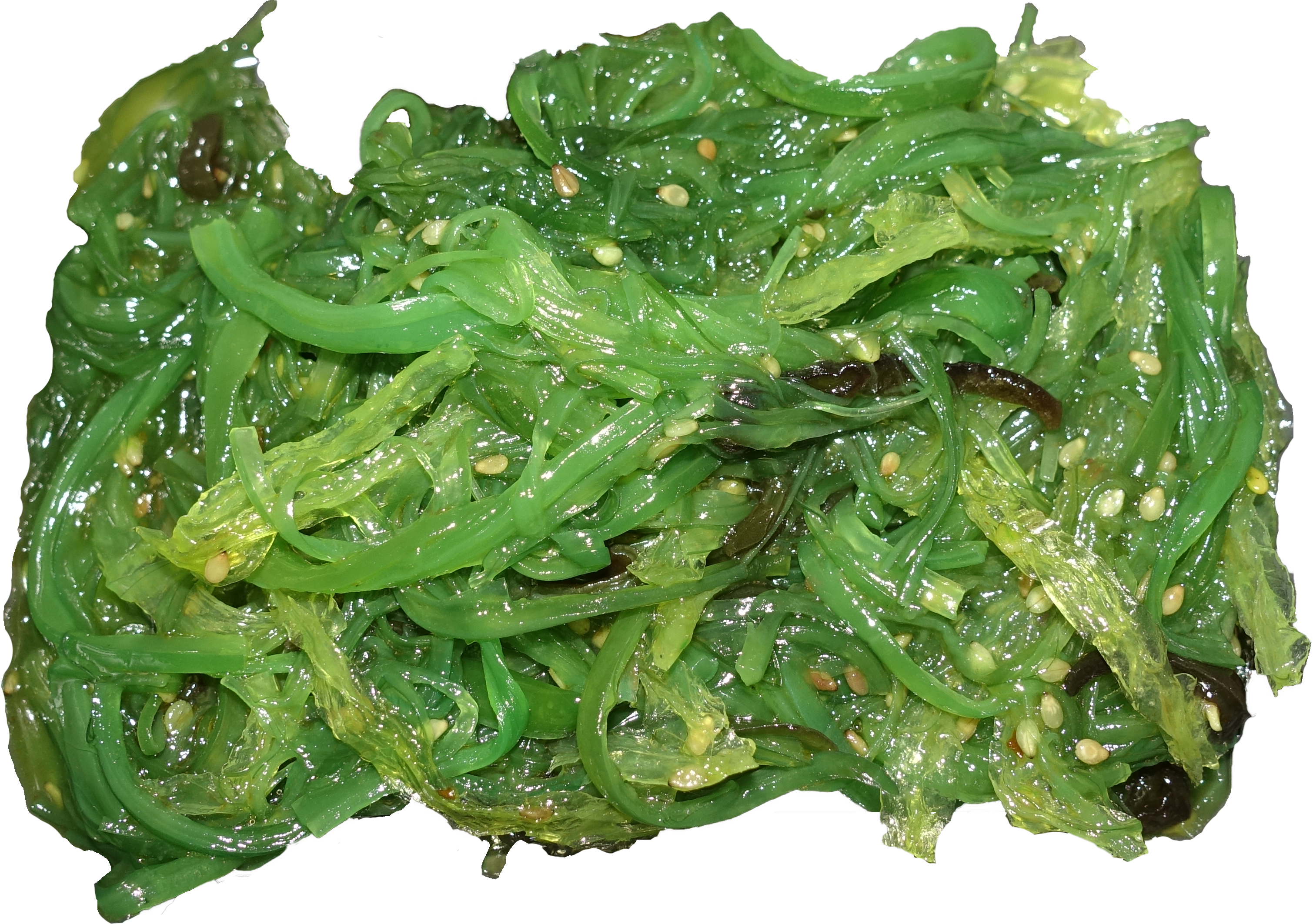 Seaweed salad.